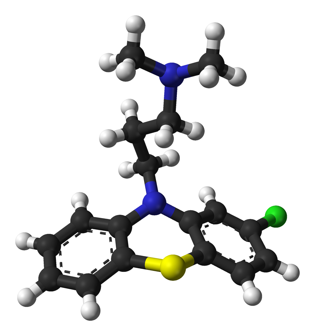 Ball-and-stick model of the chlorpromazine molecule. X-ray diffraction data from H. S. Yathirajan, M. A. Ashok, B. Narayana Achar and M. Bolte (April 2007). "Chlorpromazinium picrate". Acta. Cryst. 'E63' (4): o1795-o1797.